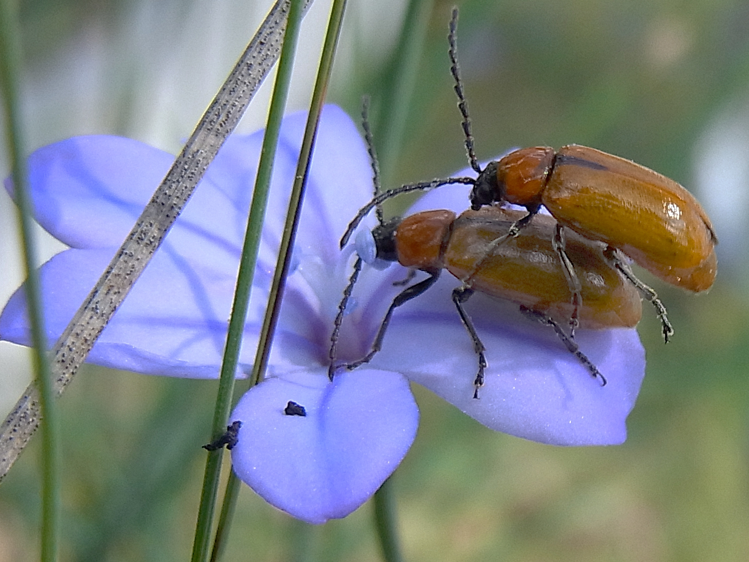 Exosoma lusitanica from Northeastern Spain, near Manresa, early may 2011.